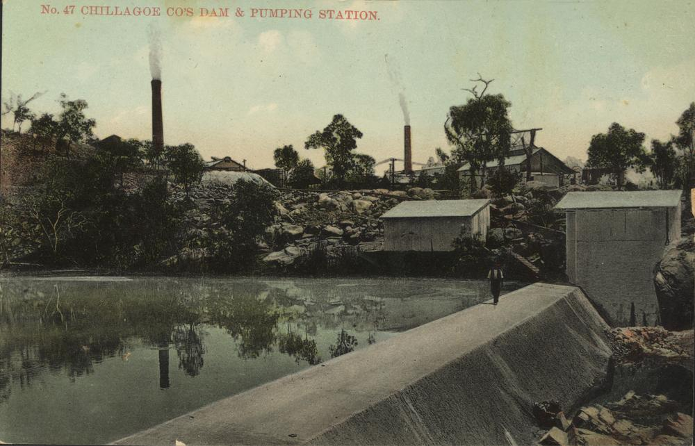 Chillagoe Company's dam and pumping station, Chillagoe, North Queensland, ca. 1910. Chillagoe is located 140km west of Mareeba on the Atherton Tablelands. In 1901 a huge copper smelter was built to take advantage of the rich mineral deposits in the Chillagoe area, and created 200 jobs. A railway to Mareeba facilitated the transport of the copper to coastal shipping ports. By World War One, Chillagoe was one of the largest metallurgical developments in Queensland. Part of the Willmett's postcard series no. 47.